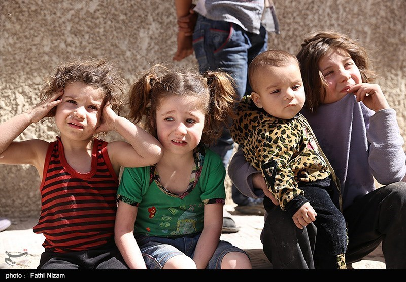 On Sunday, February 25, 2018, the Syrian Arab Army launched a massive campaign to liberate the eastern plutonium on the outskirts of Damascus, and eventually on April 25th, April 25, April 14, 2018, a proclamation of freedom and full cleansing of insurgents was announced.